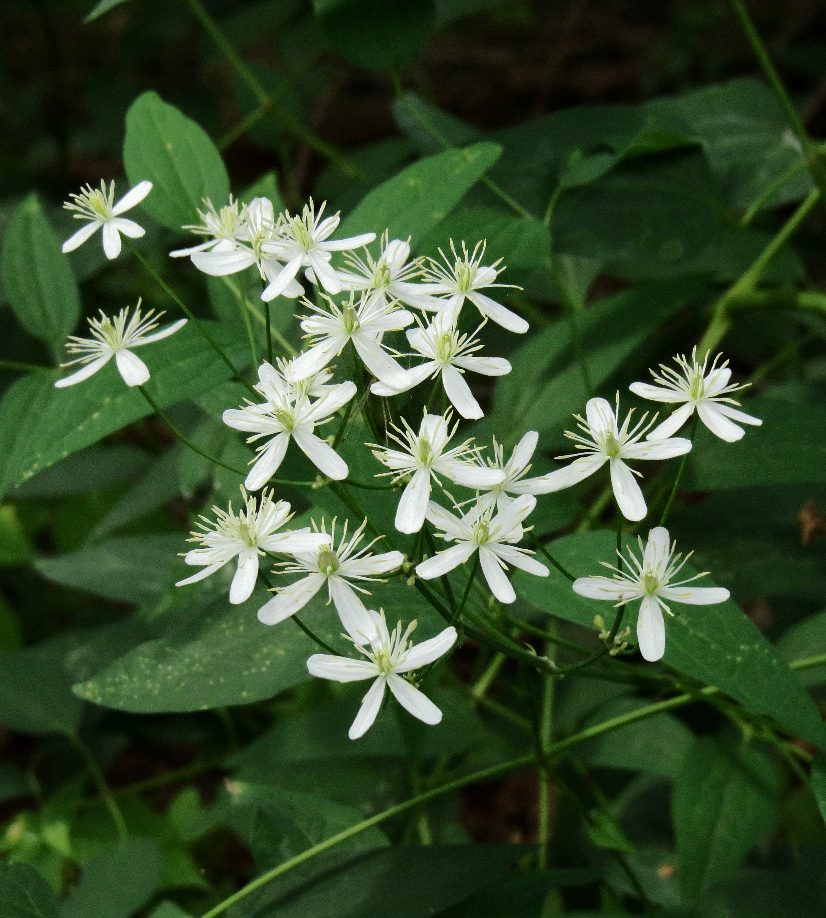 Clematis recta in Pushcha-Voditsa forest, Kiev, Ukraine